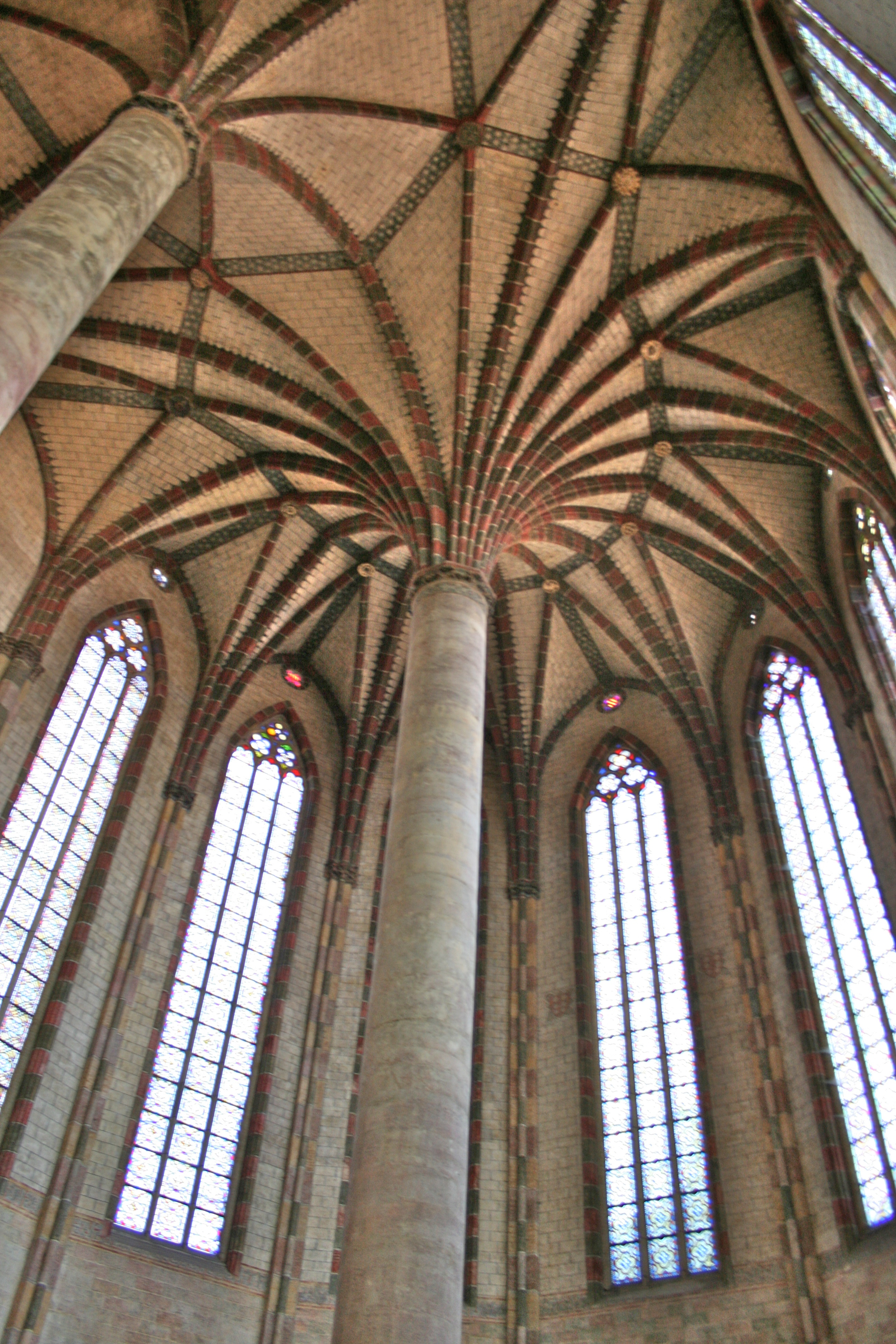 Couvent des Jacobins de Toulouse in Toulouse, in the South of France.